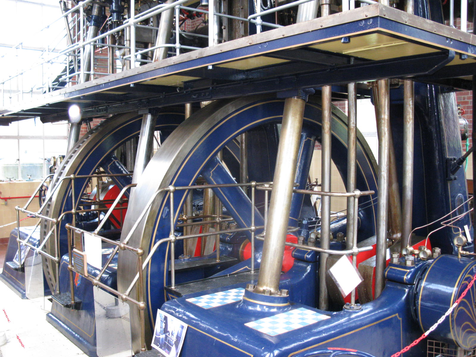 The Worthingon-Simpson steam engine at Brede waterworks.